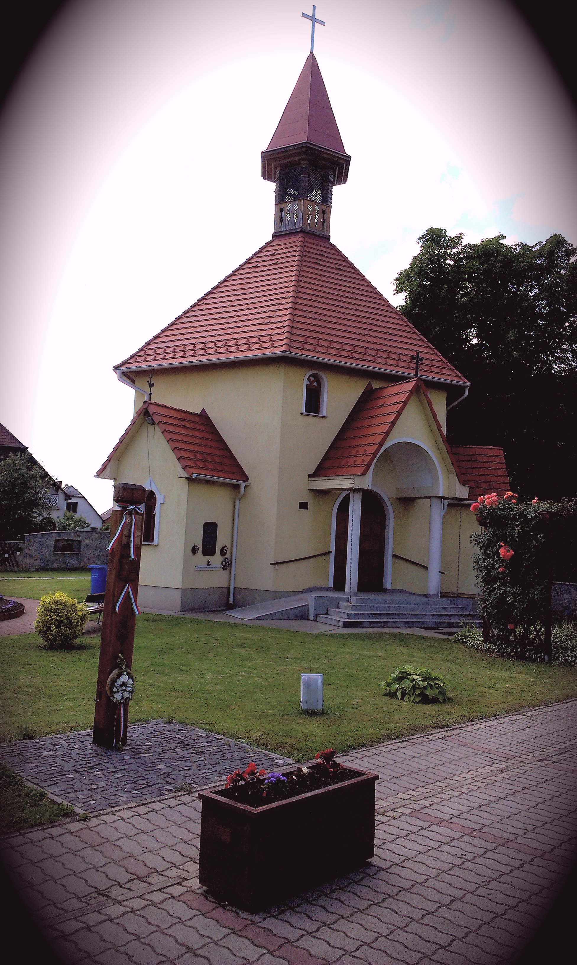 The Ecumenical Church in Sajósenye, Hungary.